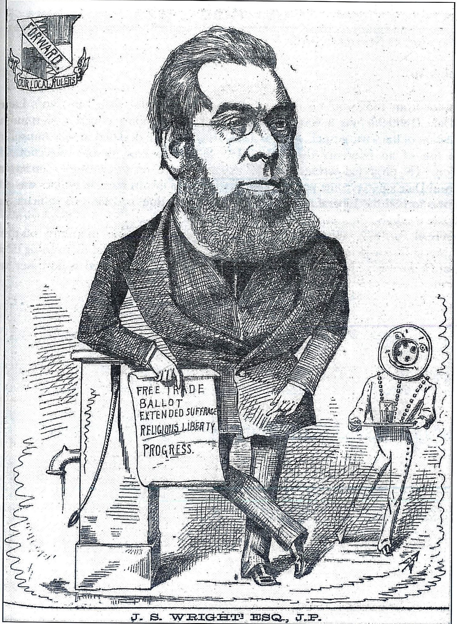 Cartoon of John Skirrow Wright (1822-1880); originally published in 'The Dart' (30 Dec 1876)